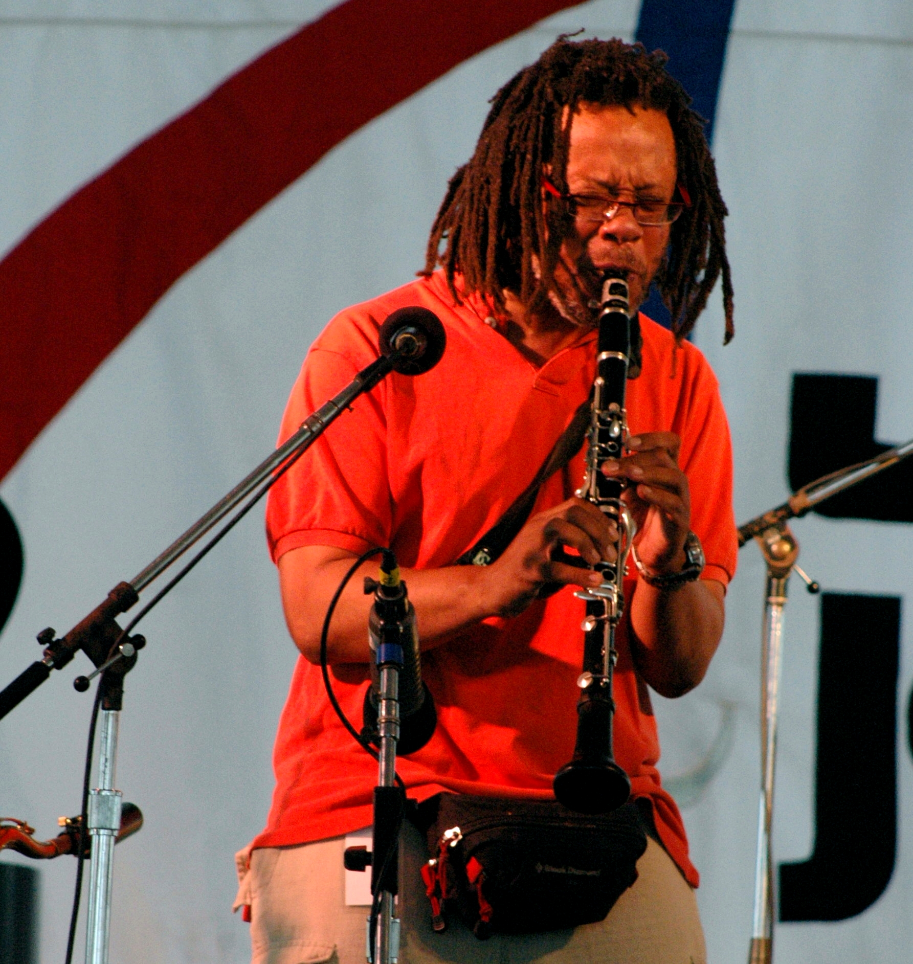 Don Byron, Newport Jazz Festival, 7/14/05